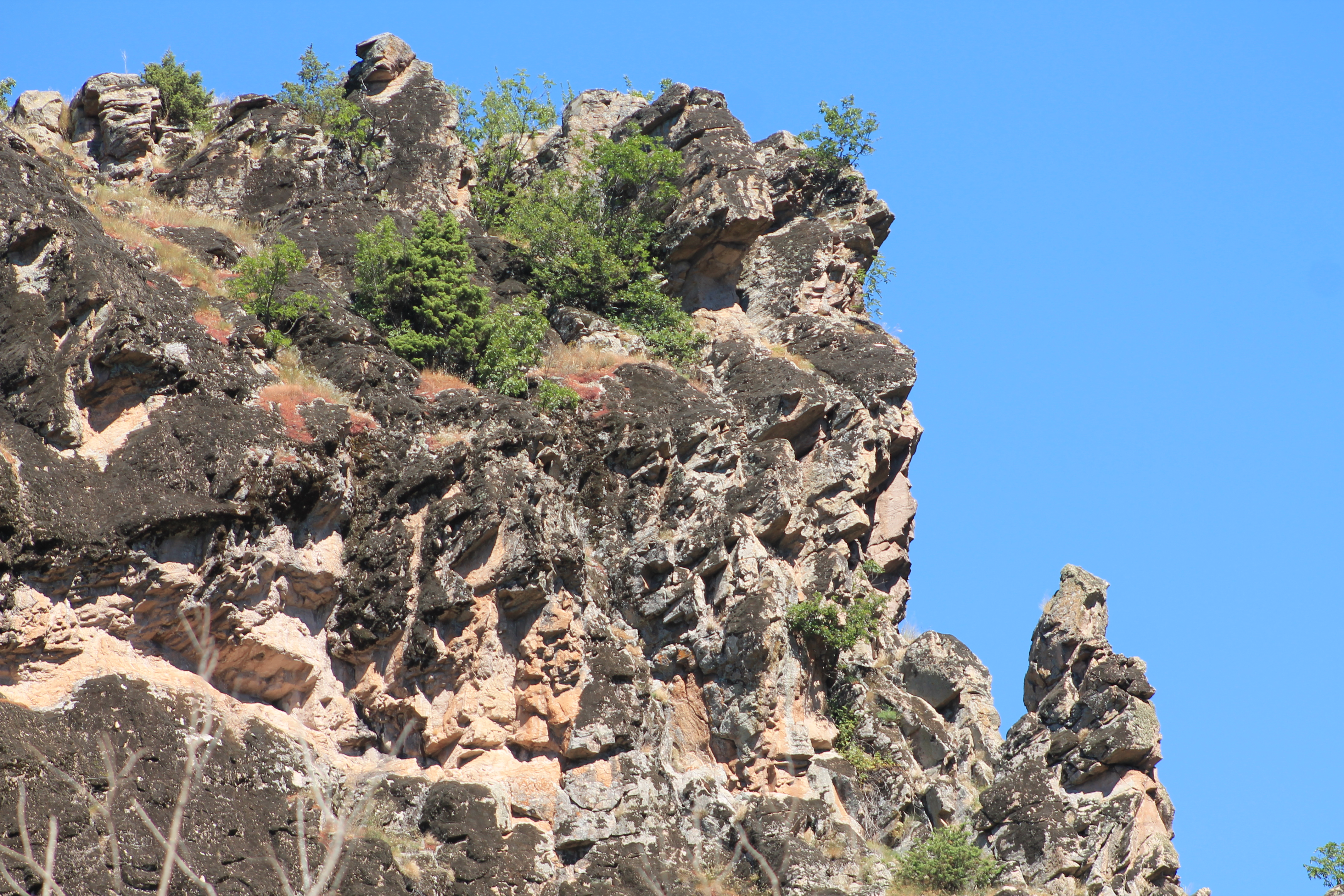 Momina kula East Wall Rock Profiles Mesta River Bulgaria